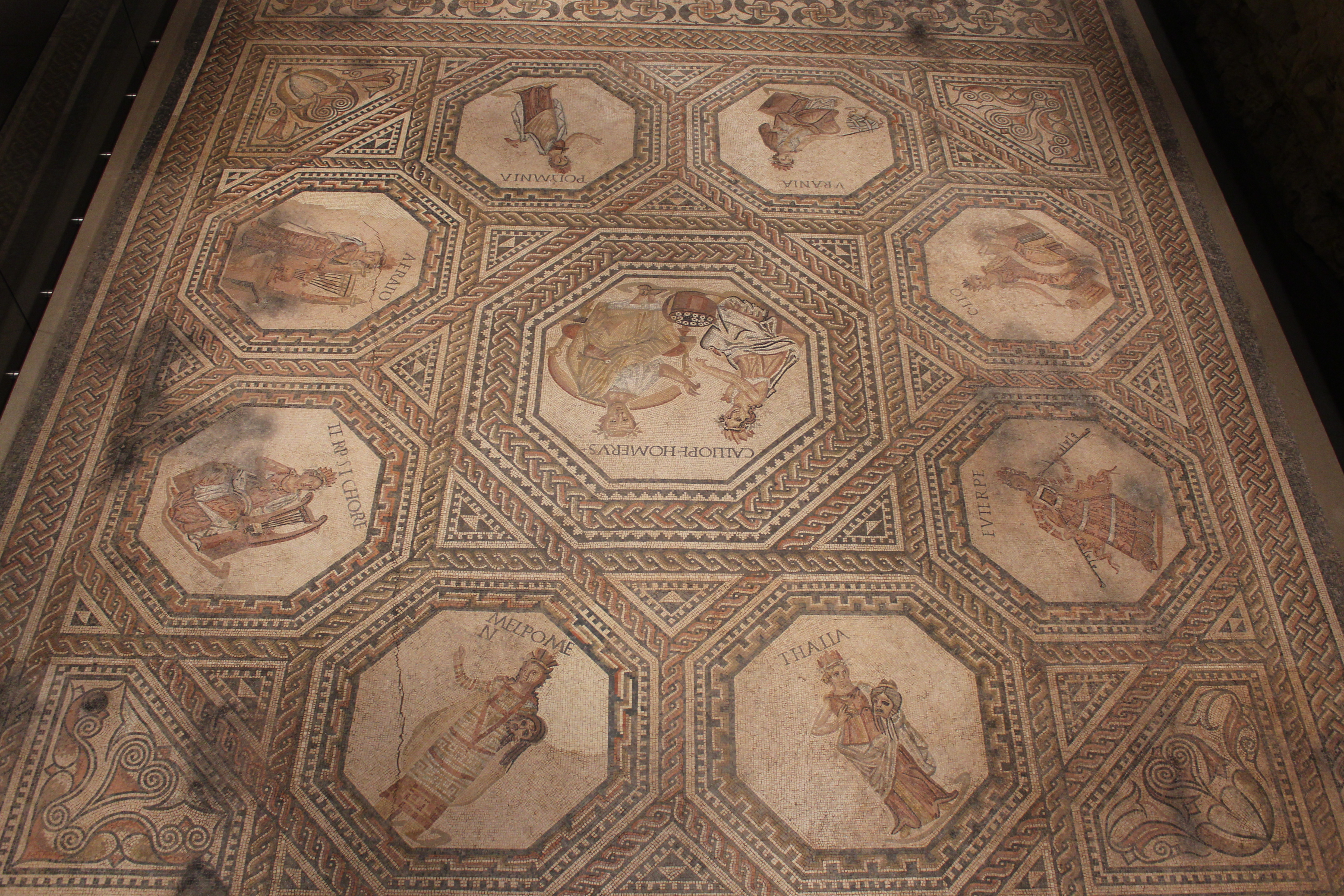 Ancient Roman mosaic from Vichten: Homer and the 9 muses.